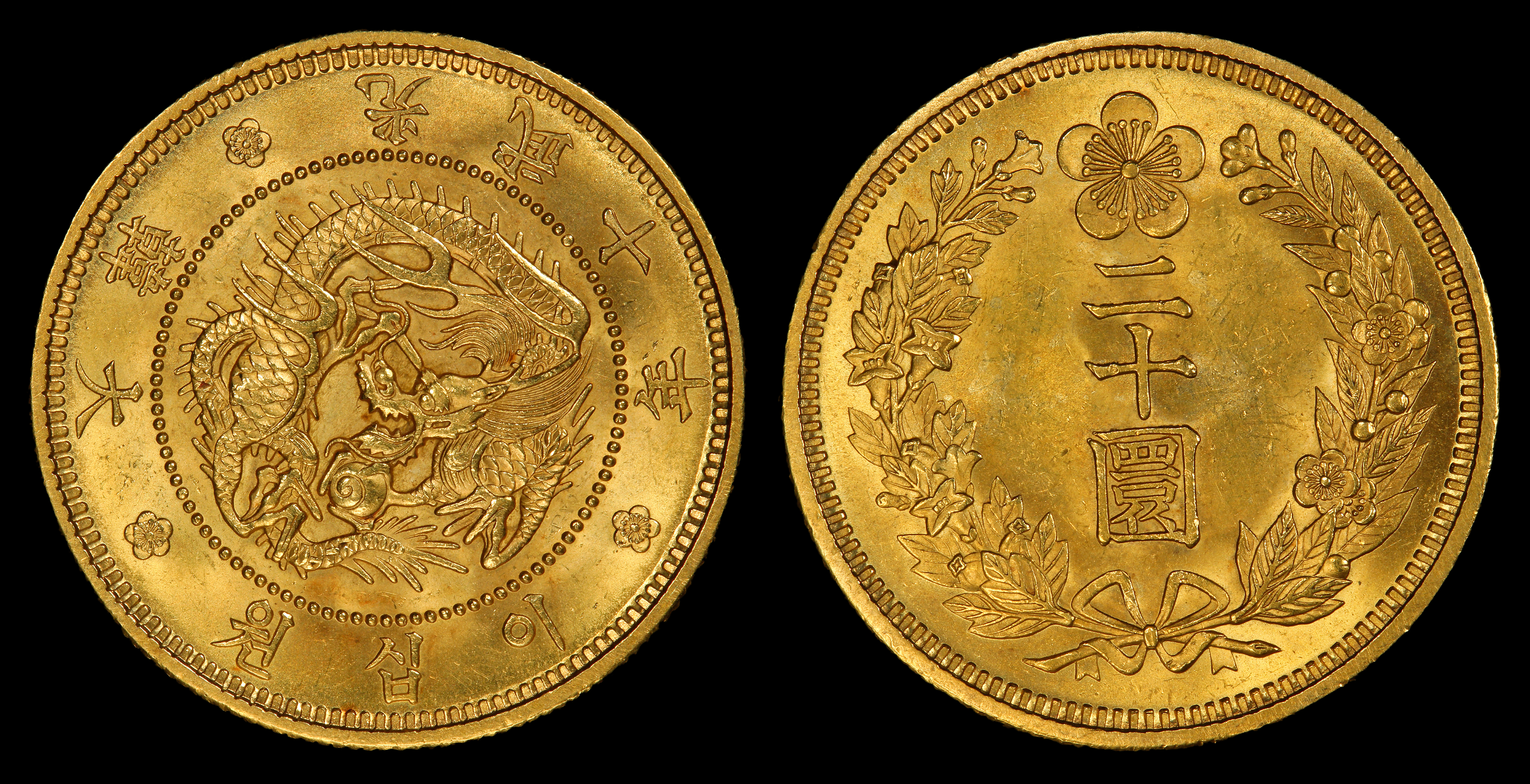 Korean Empire, 20 gold won (1907)